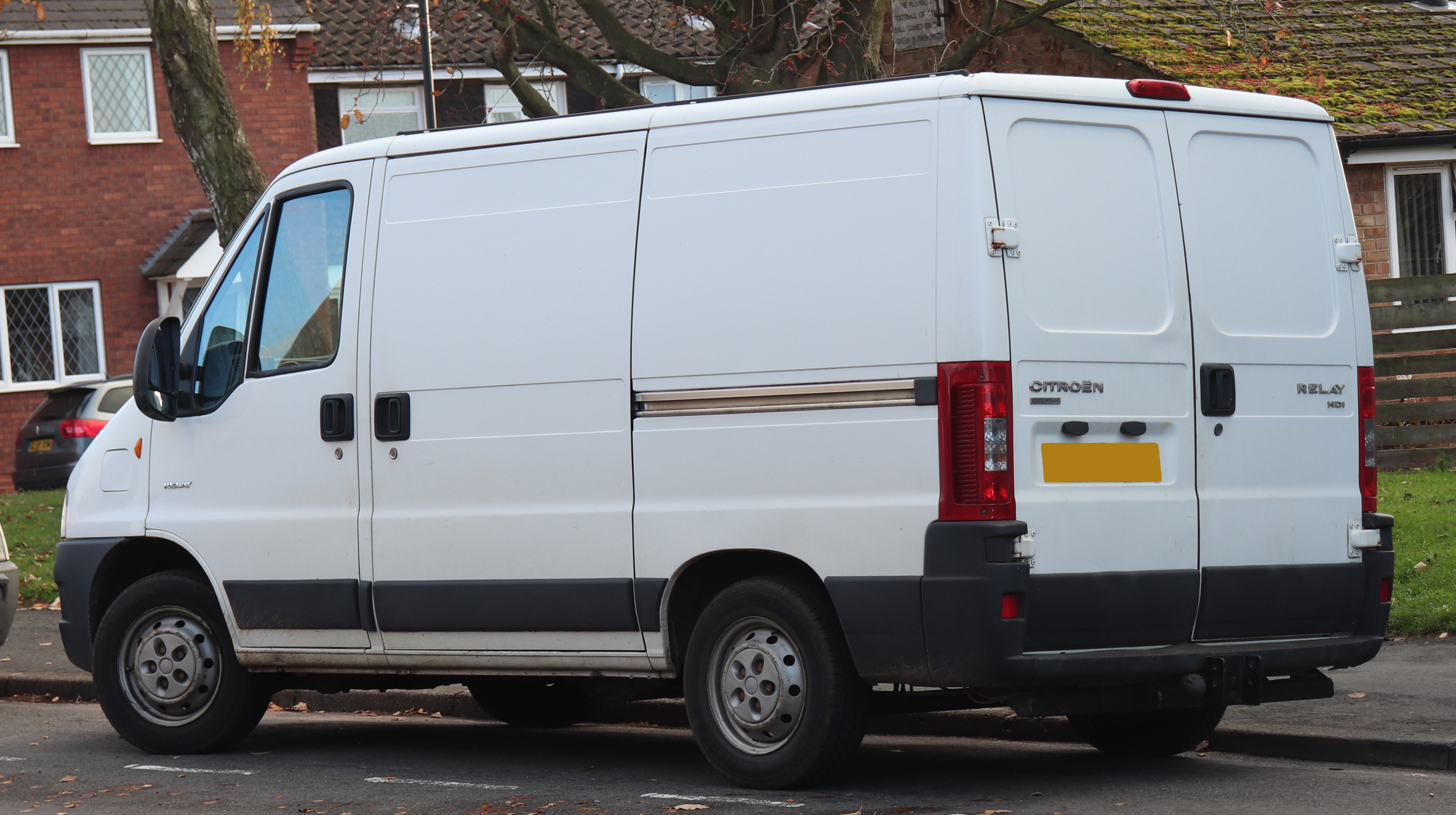 2005 Citroen Relay HDi 1100 Enterprise 2.0 Rear